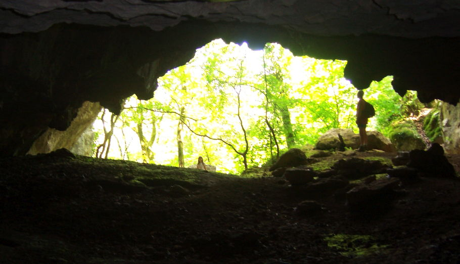 View from the inside of the porch of Linars cave, Alzou valley, Rocamadour, Lot, France.